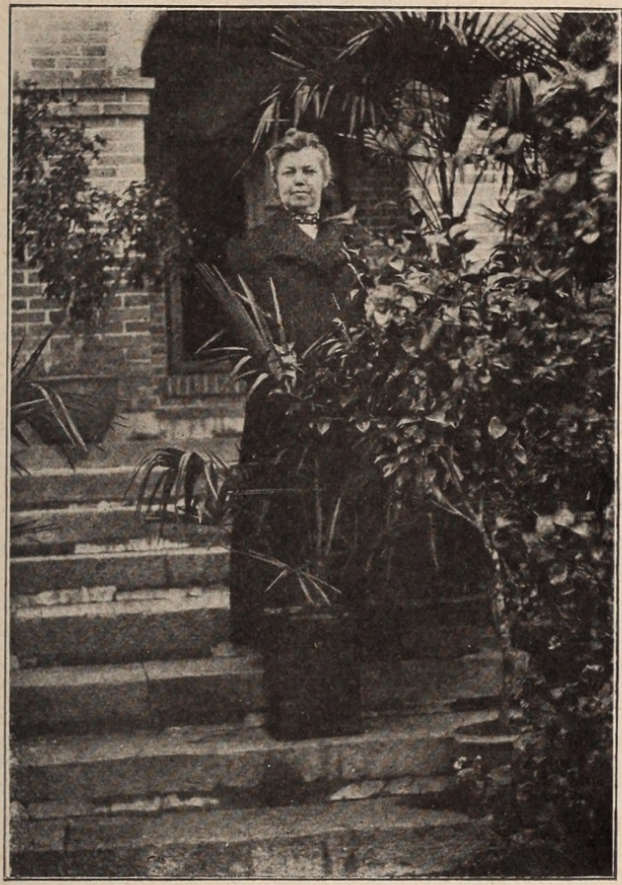 Photograph of Dr. Lucy Bement. Taken from "Moving Pictures of the Doctor's Compound"